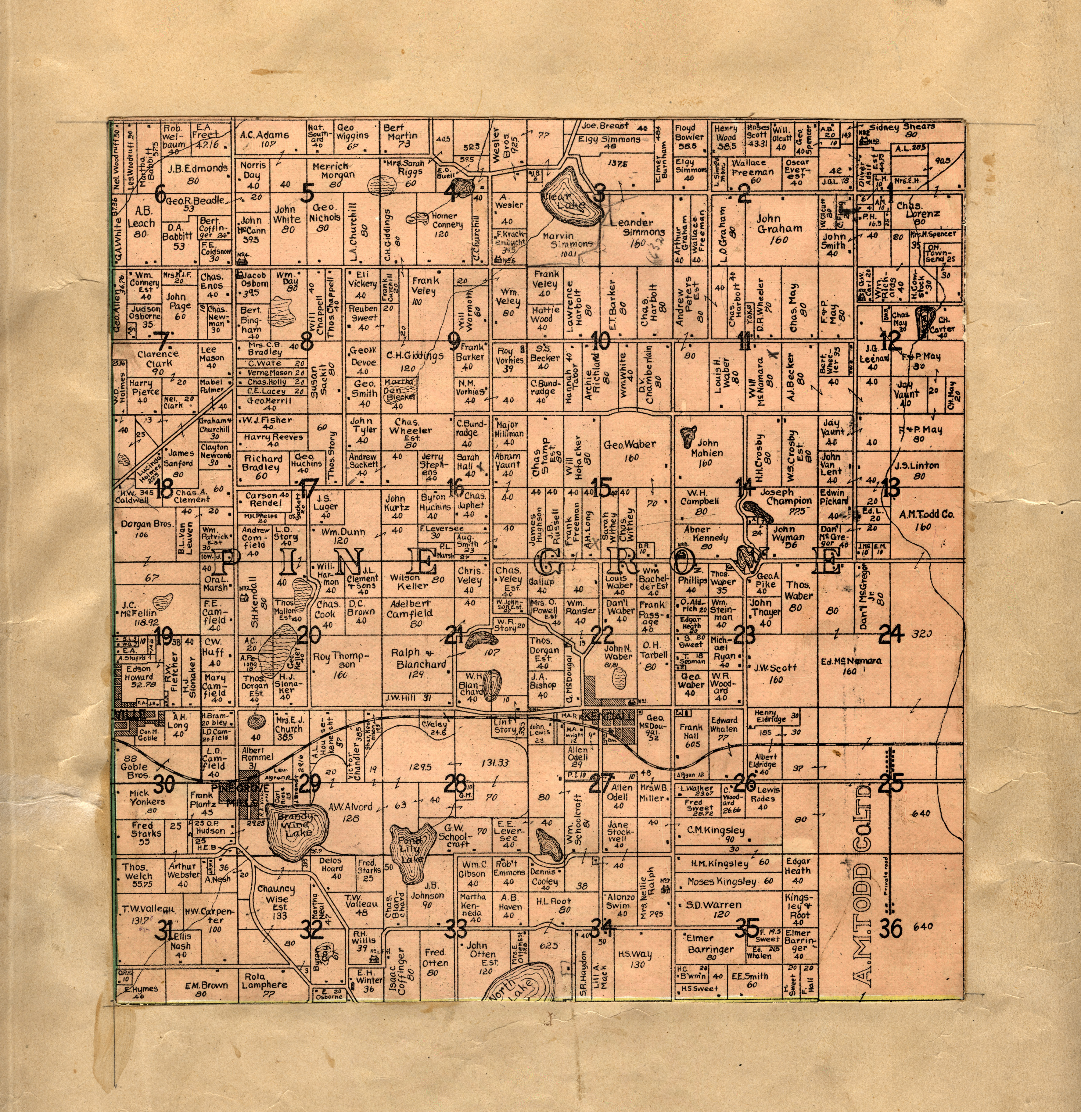 Digital scan of the Pine Grove Township portion of a larger 1906 map of Van Buren County, Michigan. The county map was cut into township-sized pieces, and the pieces were later found pasted into an 1895 atlas of Van Buren County, now in the collection of the Michigan State University Map Library. Each township map cut from the 1906 county map was pasted onto a blank page opposite the map of the corresponding township in the 1895 county atlas. Shows parcel boundaries and names of property owners, Public Land Survey System township and section numbering, roads, railroads, residences, schools, churches, municipalities, and water features. Print version was cut from map: Orton, M. K. A farm map of Vanburen County, Michigan / compiled from official records and local inspection by W.H. Goss, County Surveyor ; drawn by M.K. Orton. Rockford, Ill. : W.W. Hixson, [1906]. MSU Libraries catalog record